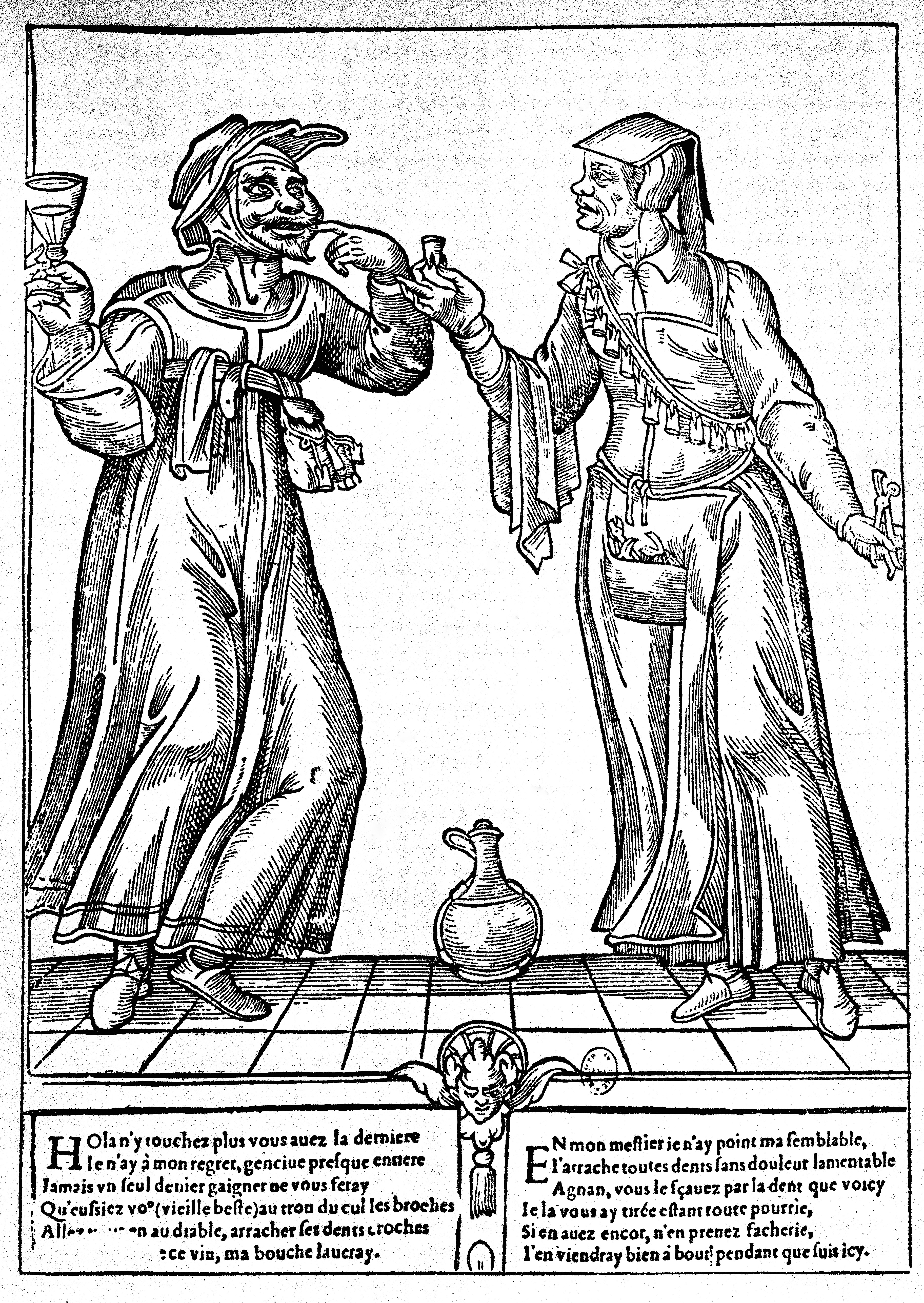 First representation of a female dentist. Taken from Proskauer and Witt, 'Pictorial History of Dentistry'.Dumont, Cologne,1962.French woodcut. NOT IN WELLCOME COPYRIGHT. General Collections Keywords: 1500-1600; FRENCH; gc; woman dentist; woodcut